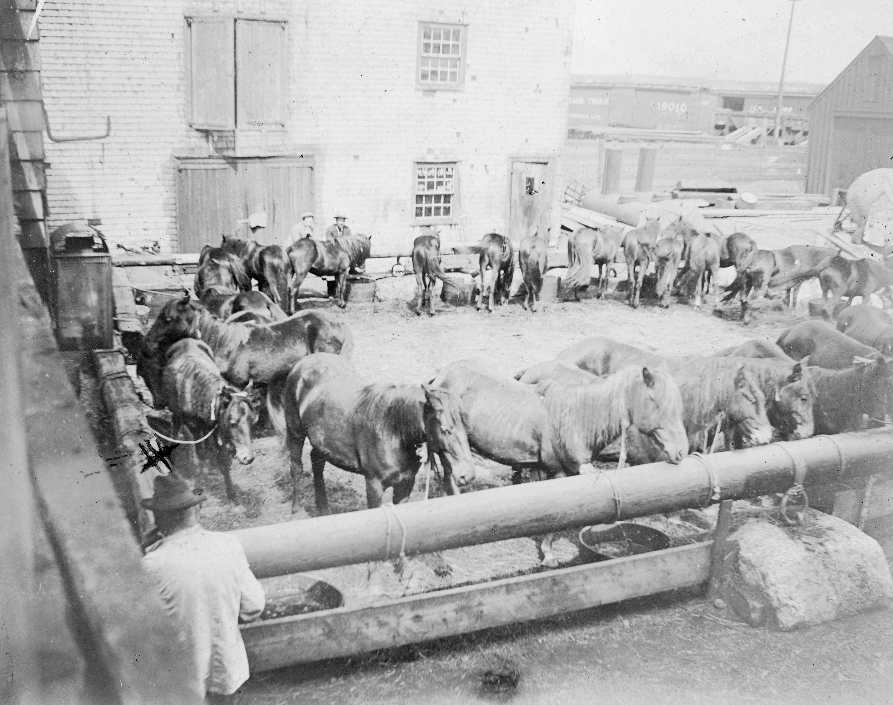 Sable Island Ponies after being unloaded from Steamer, to be sold at Auction – Halifax, Nova Scotia, Canada, about 1902. After the appointment of a marine superintendent to Sable Island in 1801, horses were routinely shipped off the island and sold at auction in Halifax, as well as in New England and Newfoundland. Valued for their strength and endurance, these small animals were a familiar sight on the streets of Halifax well into the twentieth century.